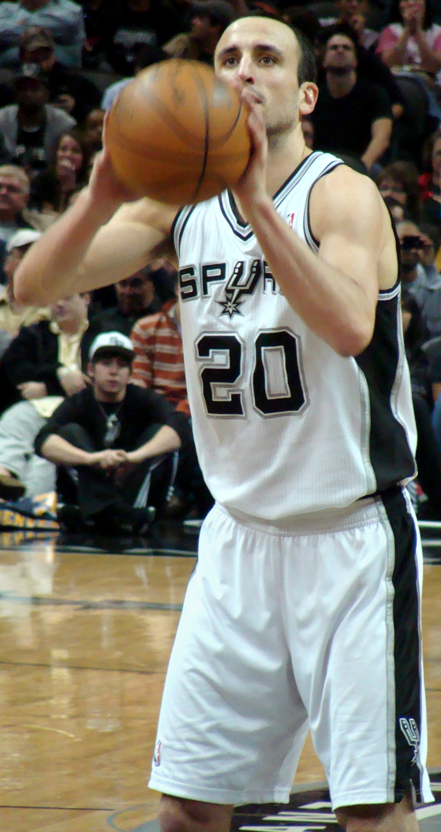 Manu Ginobili of the San Antonio Spurs, during a free throw at the Spurs-Nuggets match on 12-22-2010 in San Antonio, TX.